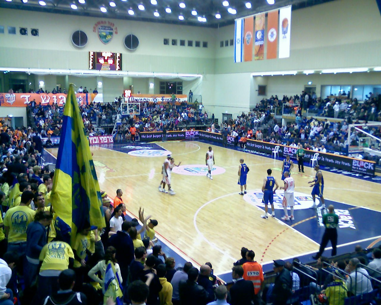 A game of Rishon LeZion (basketball) against Maccabi Tel Aviv at the "Bet Maccabi", home stadium of MRL, March 23, 2009.